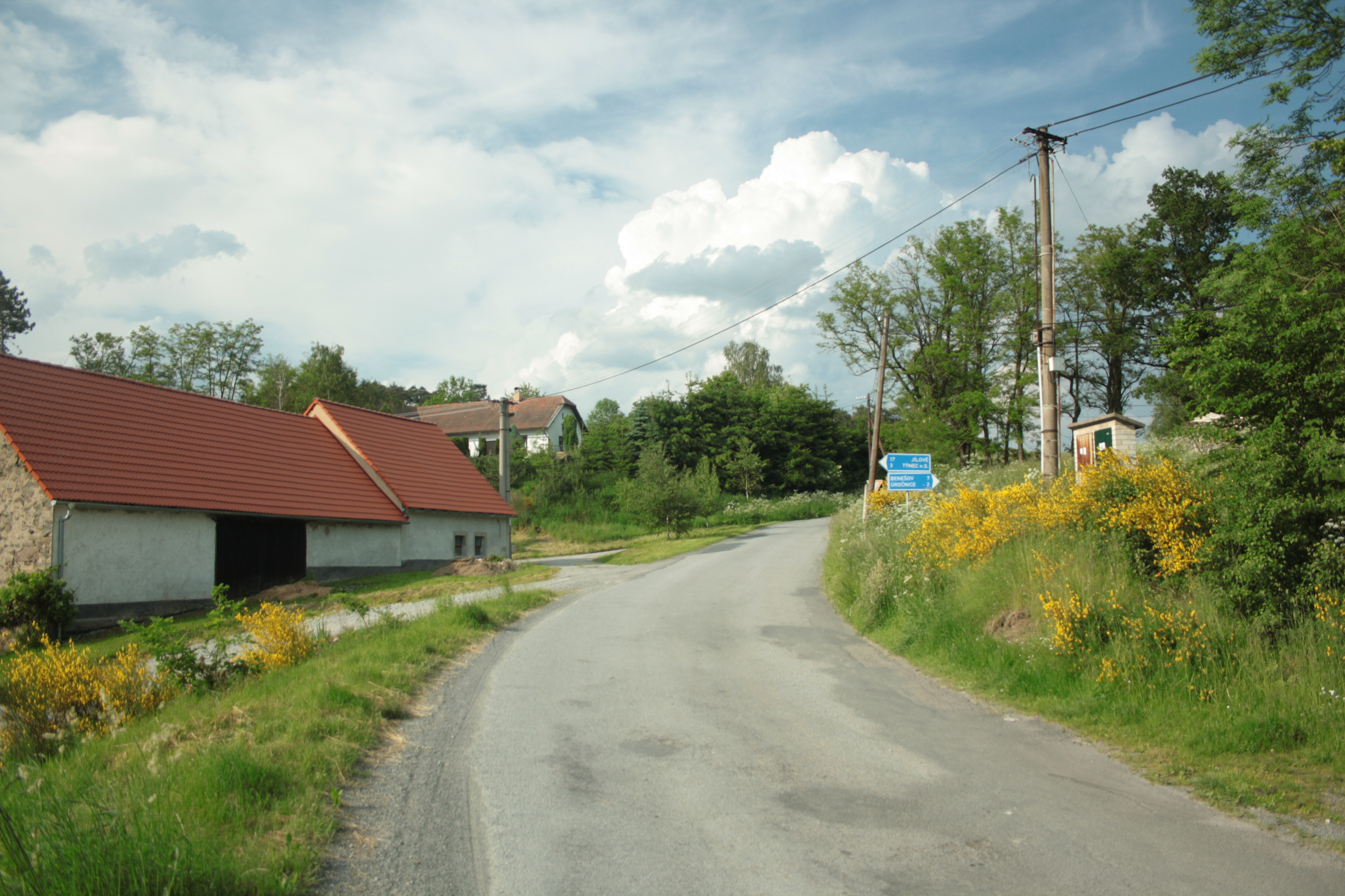 Krusičany village (part of the town of Týnec nad Sázavou), Central Bohemian Region, CZ